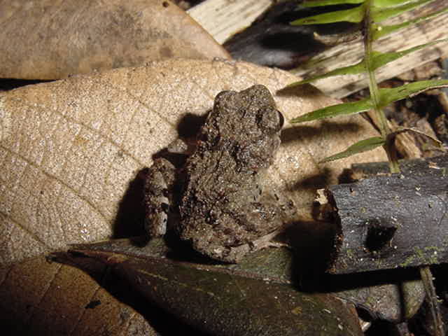 Eleutherodactylus gundlachi